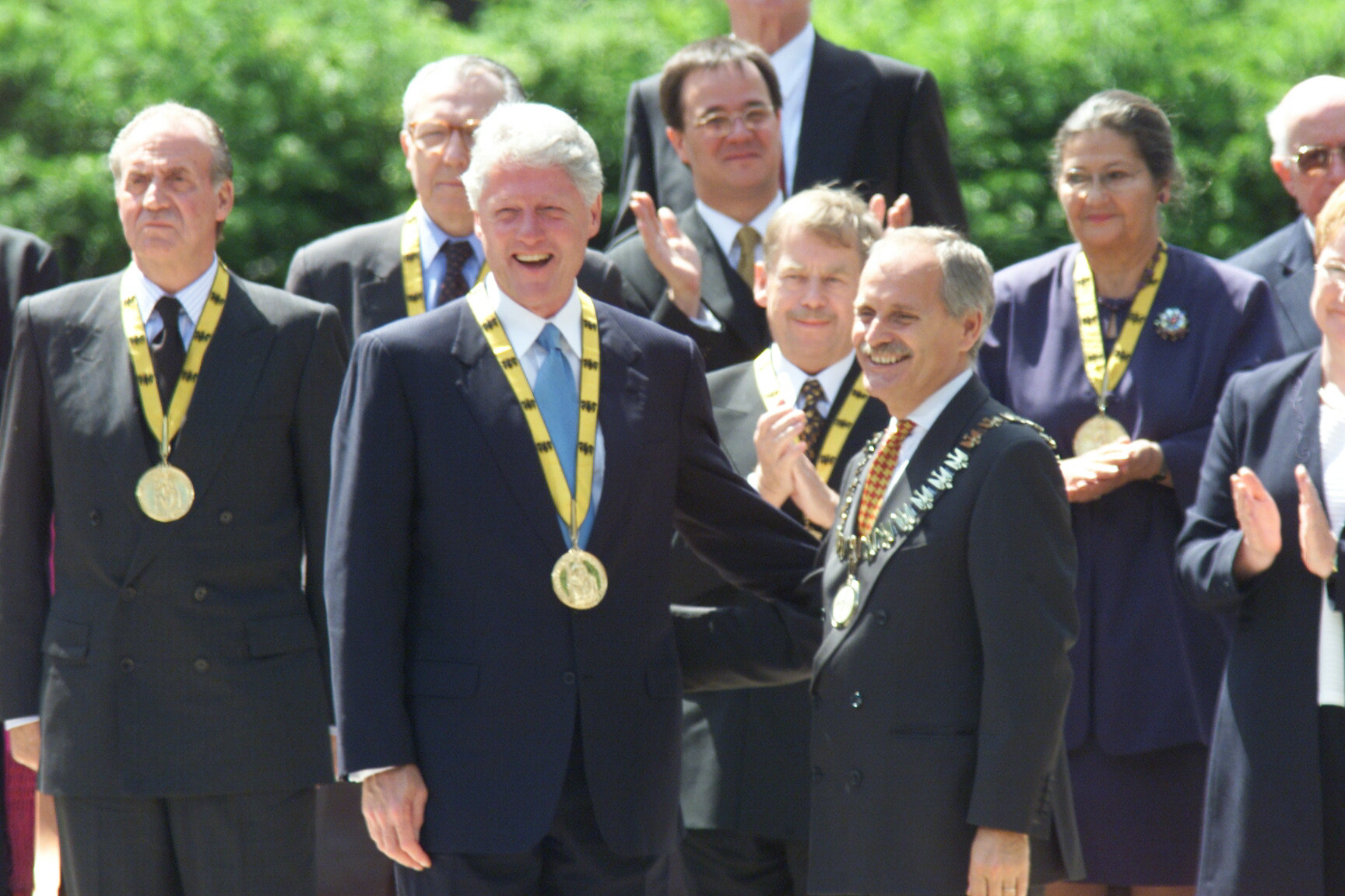 The Charlemagne Prize 2000 is presented to President Clinton for his contributions to peace and integration in Europe. Front: Bill Clinton (left), Jürgen Linden (mayor of Aachen) Directly behind them: Václav Havel, Karlspreis winner of 1991 Behind Jürgen Linden: Simone Veil, Karlspreis winner of 1981